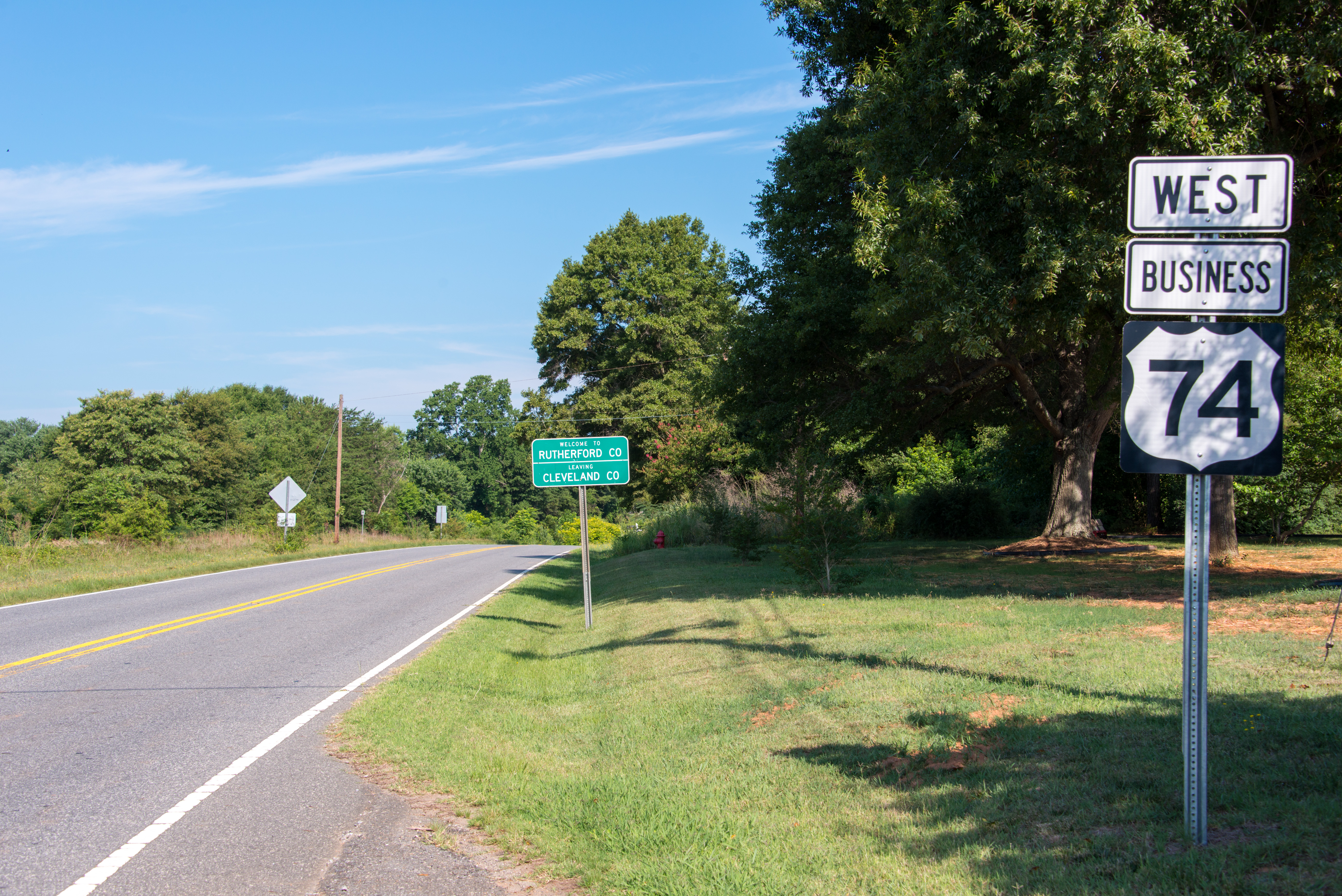 U.S. Route 74 Business next to the Cleveland/Rutherford County line, west of Mooresboro.